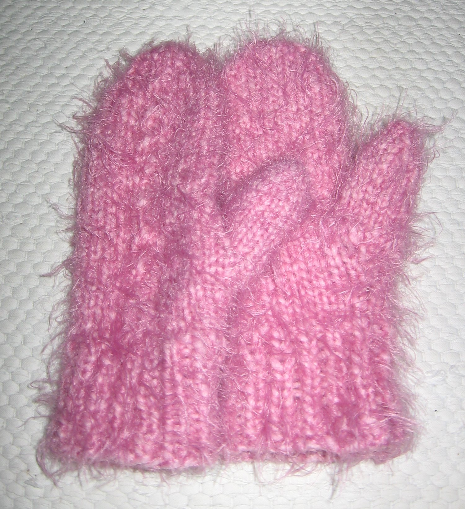 Picture of pink mittens knitted from Novita's yarn Teddy (color 528)